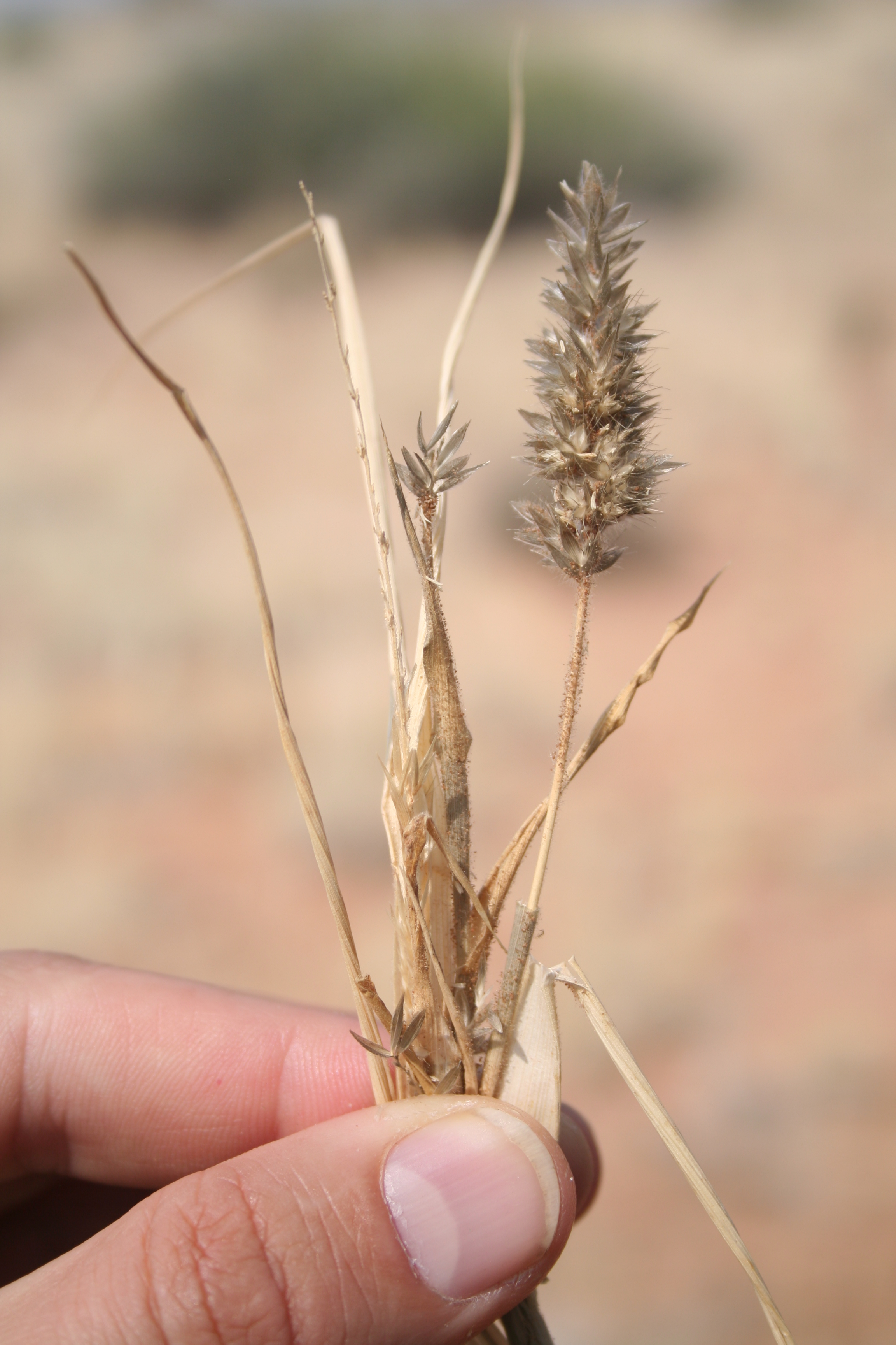 Schmidtia kalahariensis, near Fish River Canyon, S Namibia